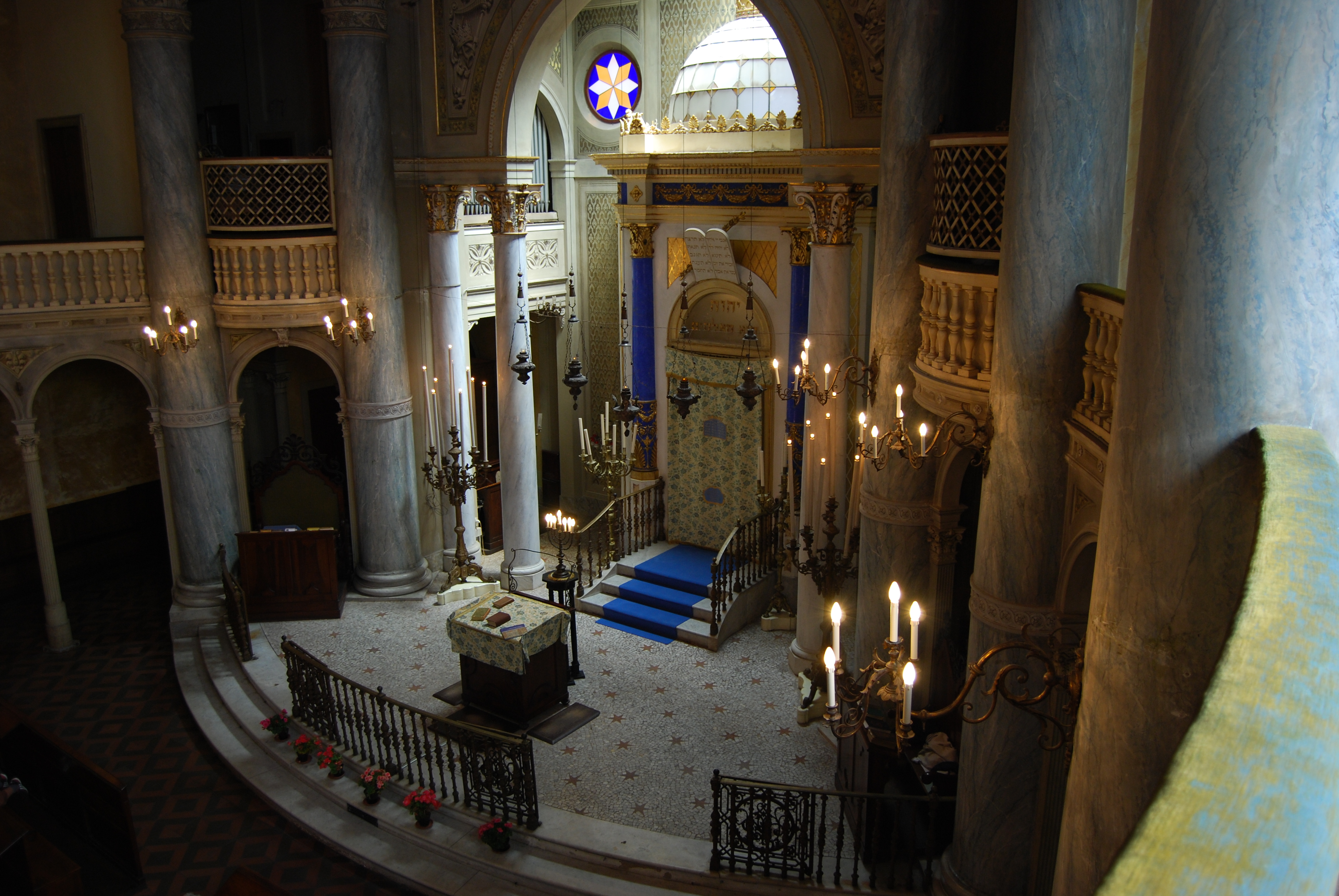 The Teva of the Modena Synagogue